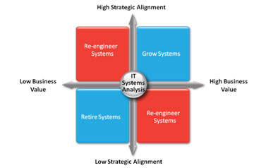 Graphic on DOT IT Portfolio Rationalization as presented by Nitin Pradhan, DOT CIO.